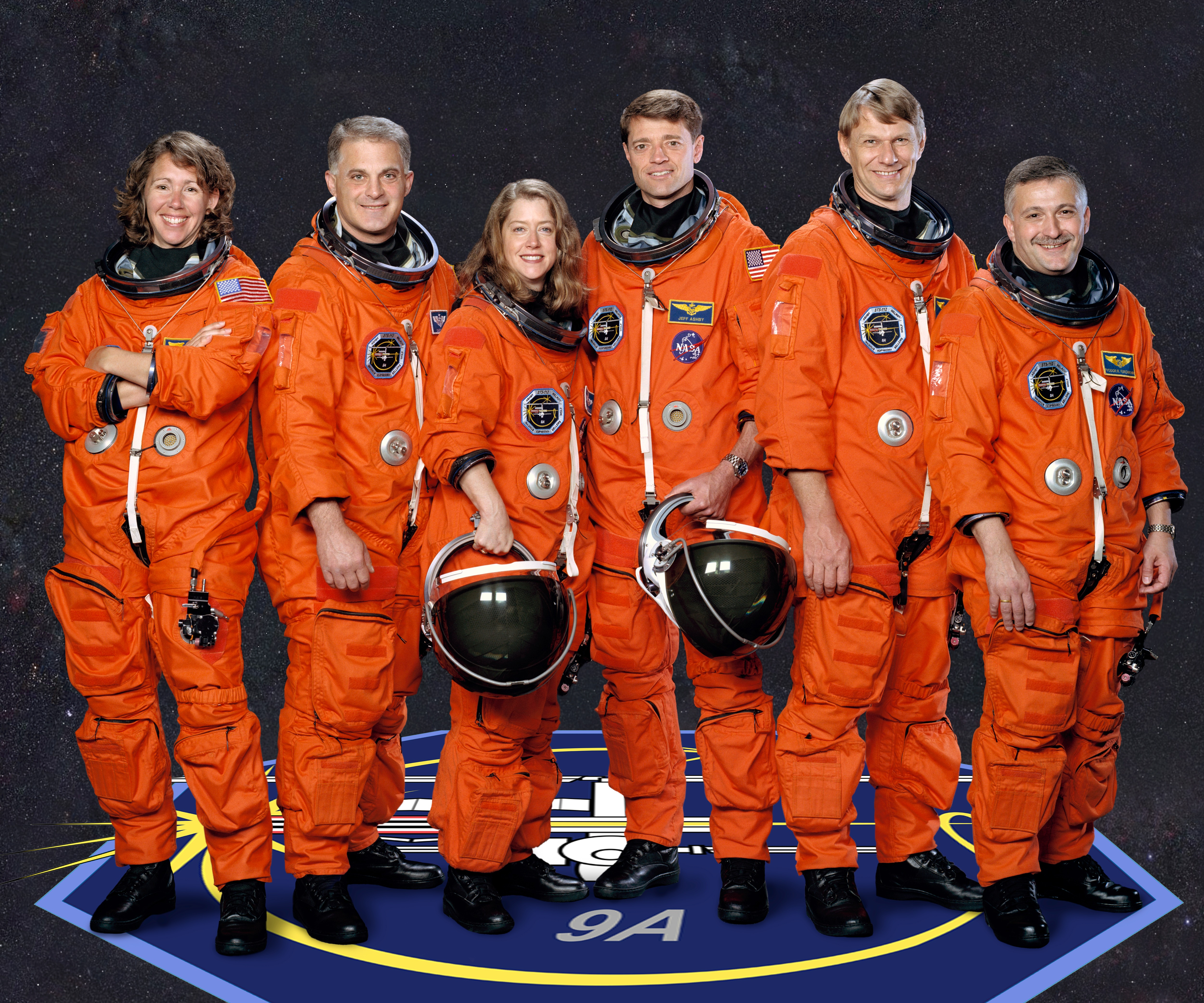 These five astronauts and cosmonaut take a break from training to pose for the STS-112 crew portrait. Astronauts Jeffrey S. Ashby and Pamela A. Melroy, commander and pilot, respectively, are in the center of the photo. The mission specialists are, from left to right, astronauts Sandra H. Magnus, David A. Wolf and Piers J. Sellers and cosmonaut Fyodor Yurchikhin, who represents Rosaviakosmos.